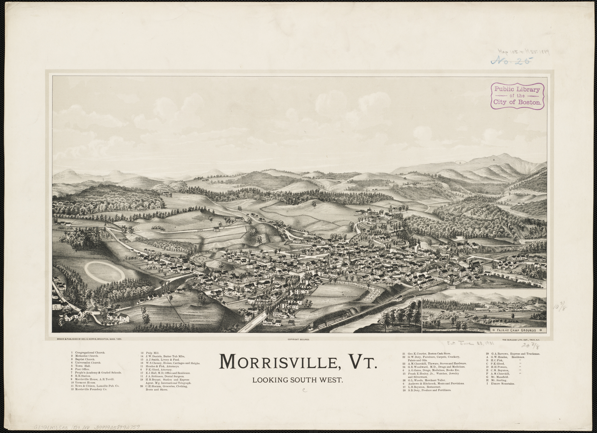 Zoom into this map at . Author: Norris, George E. Publisher: Geo. E. Norris Date: 1889. Location: Morrisville (Vt.) Scale: Not drawn to scale. Call Number: G3754.M65A3 1889.N6